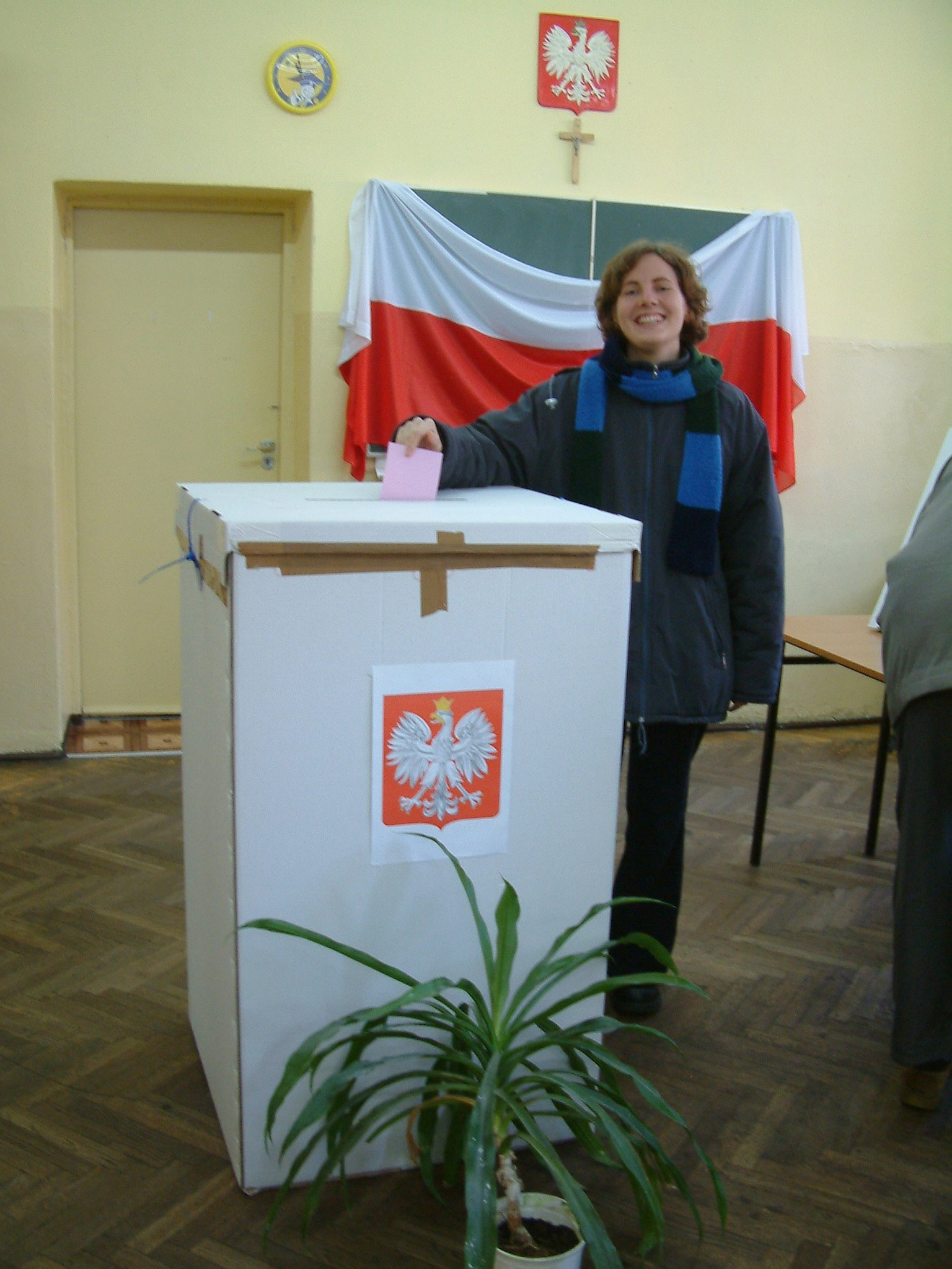 Local election 2006 in Poznań, Poland